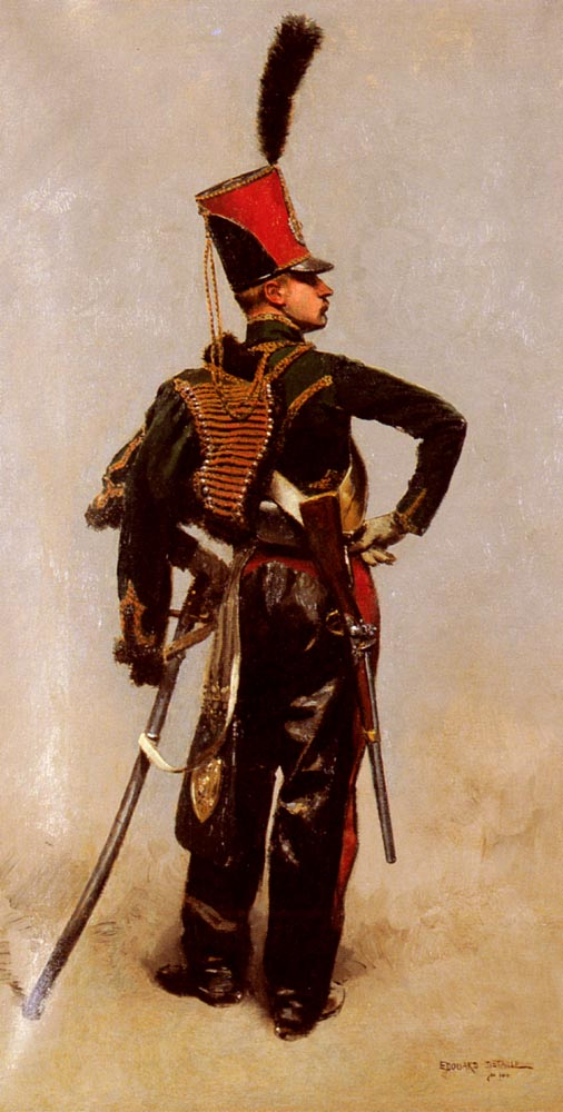 A Rank Soldier of the 7th Hussar Regiment, Oil on canvas, private collection.